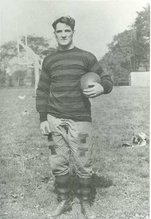 Image of Bill Amos.